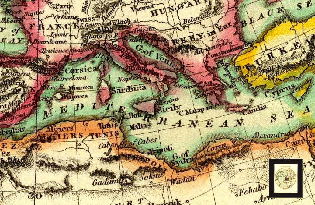 Detail from map in New General Atlas showing Mediterranean